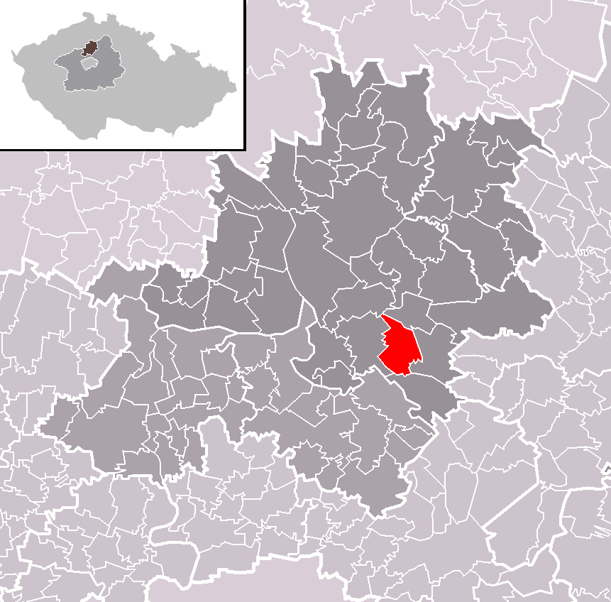 Location of Liblice municipality within Mělník District and administrative area of Mělník as a Municipality with Extended Competence.